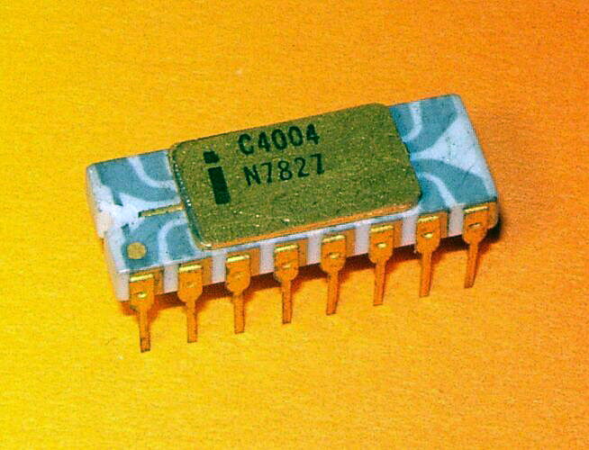 Intel C4004